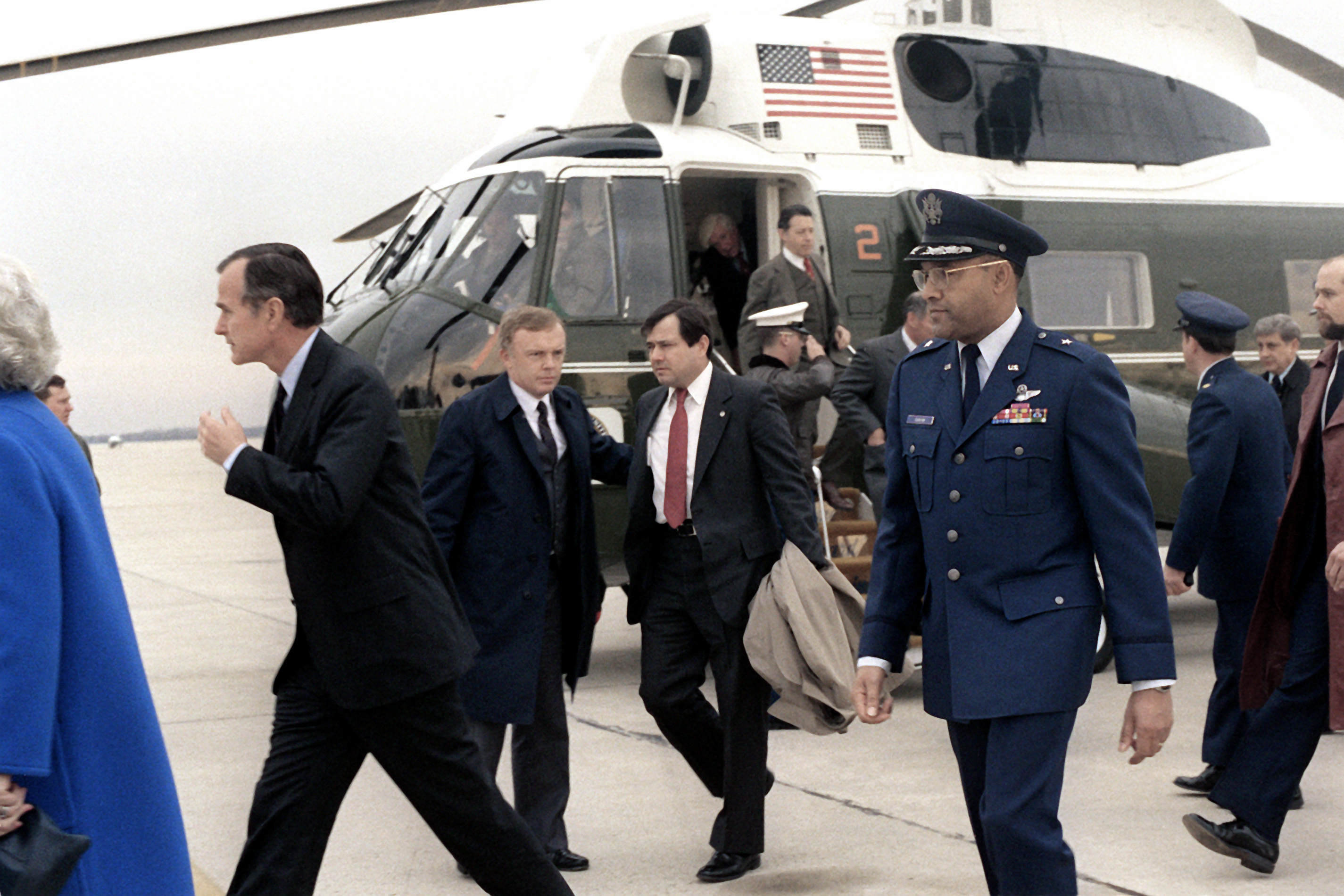 Vice President George Bush and other VIP's wait to welcome the former hostages to Iran home. Location: ANDREWS AIR FORCE BASE VIRIN: DF-SC-82-06566